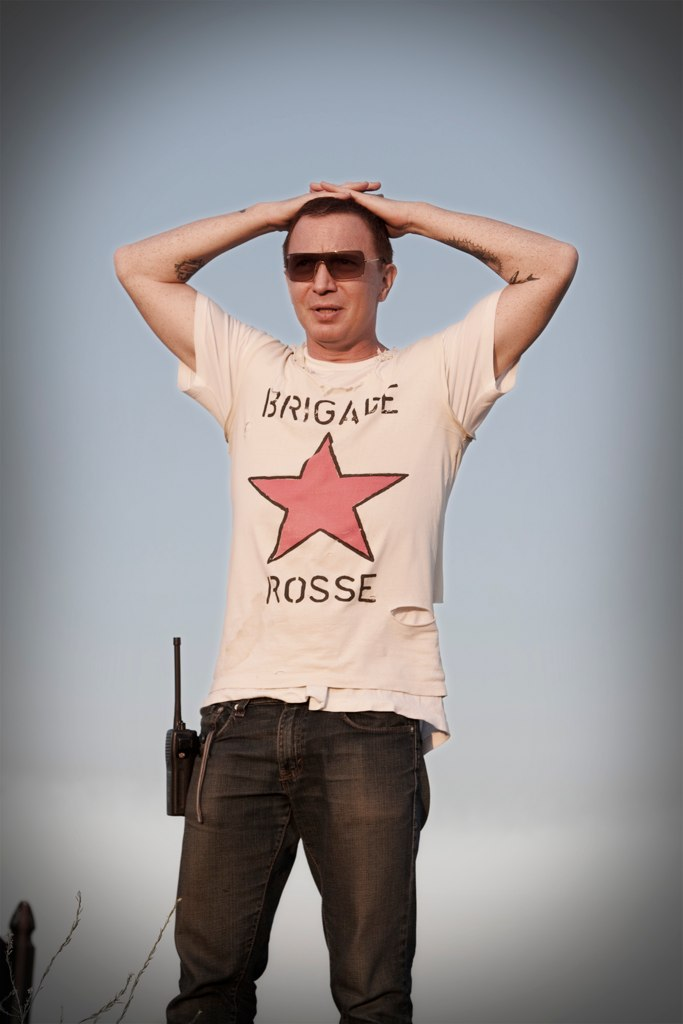 BRUCE LABRUCE in LAZombie by arno Roca